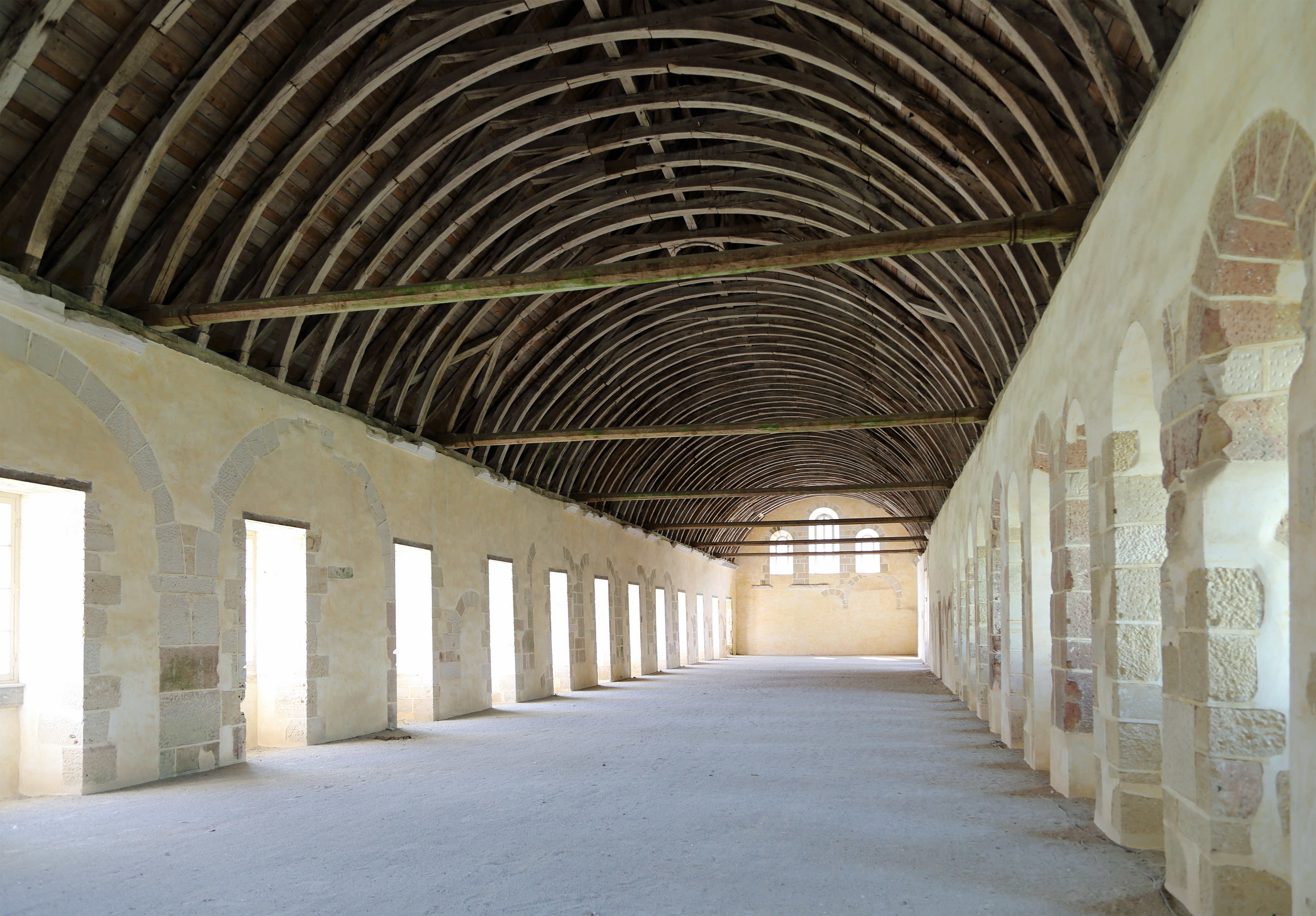 Marmagne (Côte-d'Or department, France): dormitory of the former Fontenay abbey